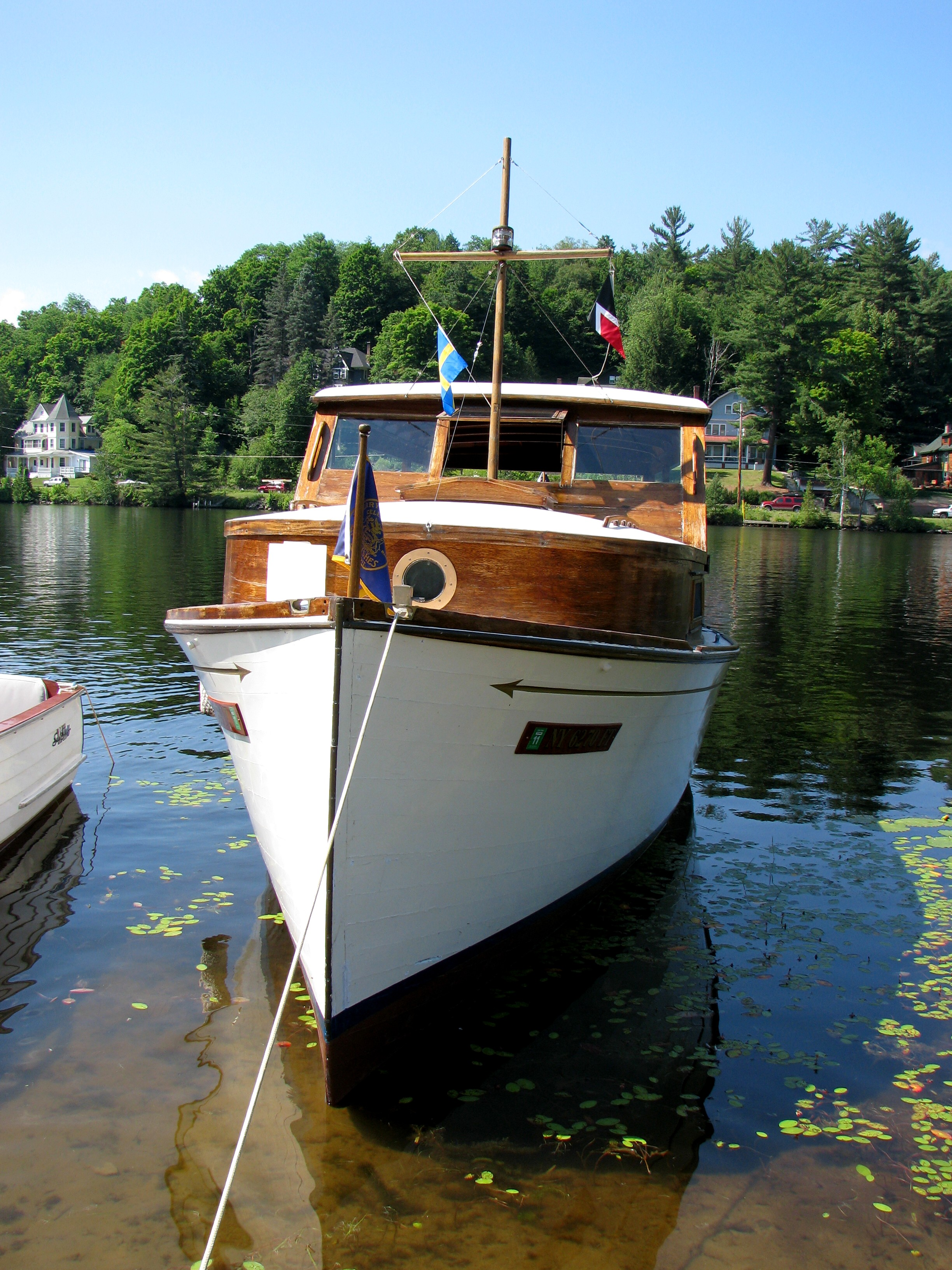 1929 Richardson Croisette, 29 foot, Chrysler Ace engine. from Lower Saranac Lake, at Lake Flower, Saranac Lake, New York.